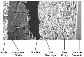 Tantalum Capacitor Cathode Termination